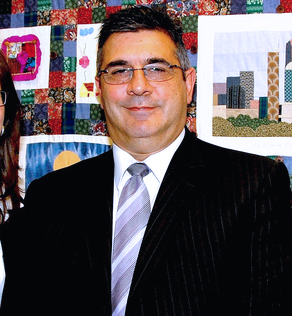 Andrew Demetriou, the current CEO of the Australian Football League (AFL).